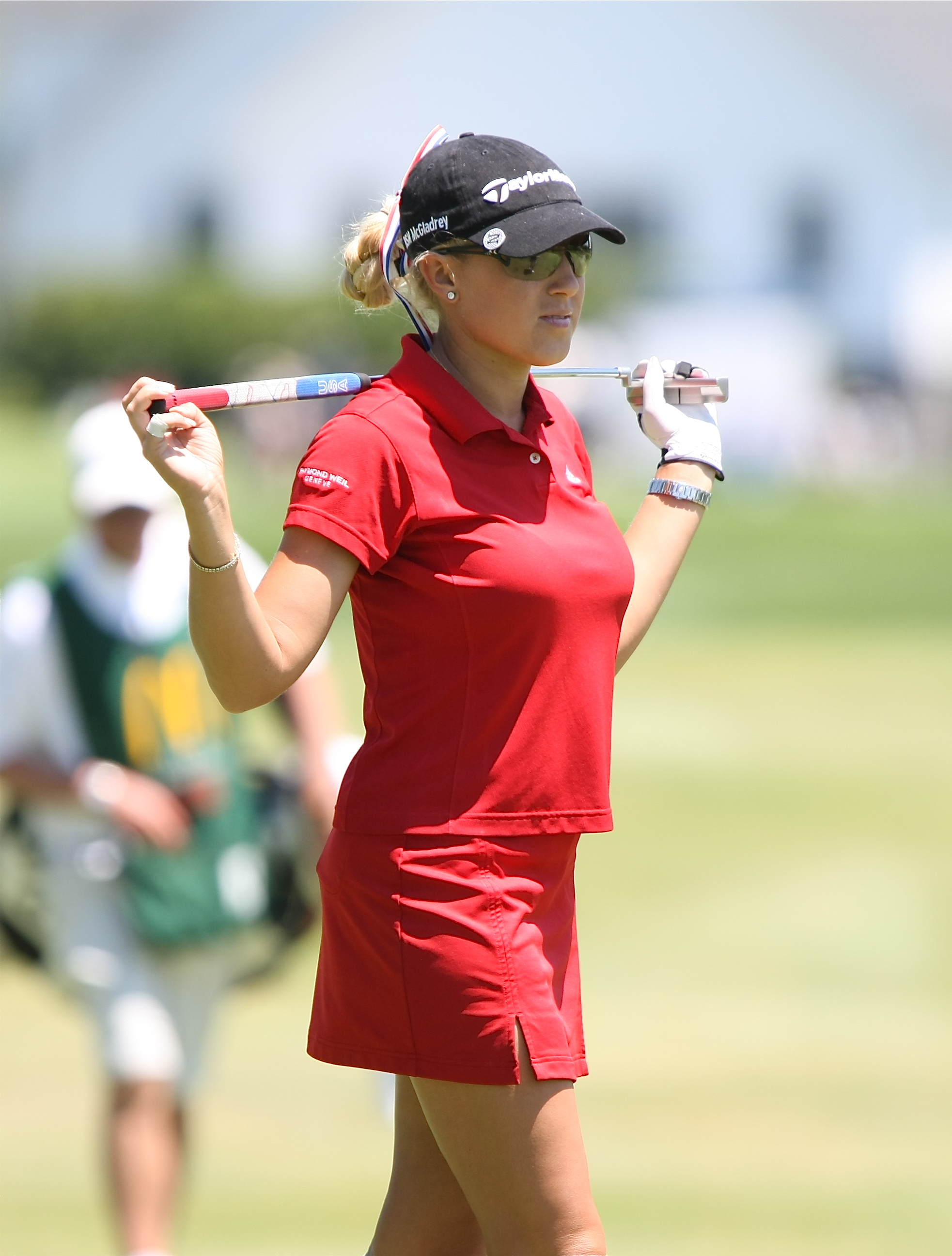 HAVRE DE GRACE, MD - JUNE 02: Natalie Gulbis (USA) during pro-am before 2008 LPGA Championship held at Bulle Rock Golf Course, on June 2, 2008 in Havre de Grace, Maryland. (Photo by Keith Allison)